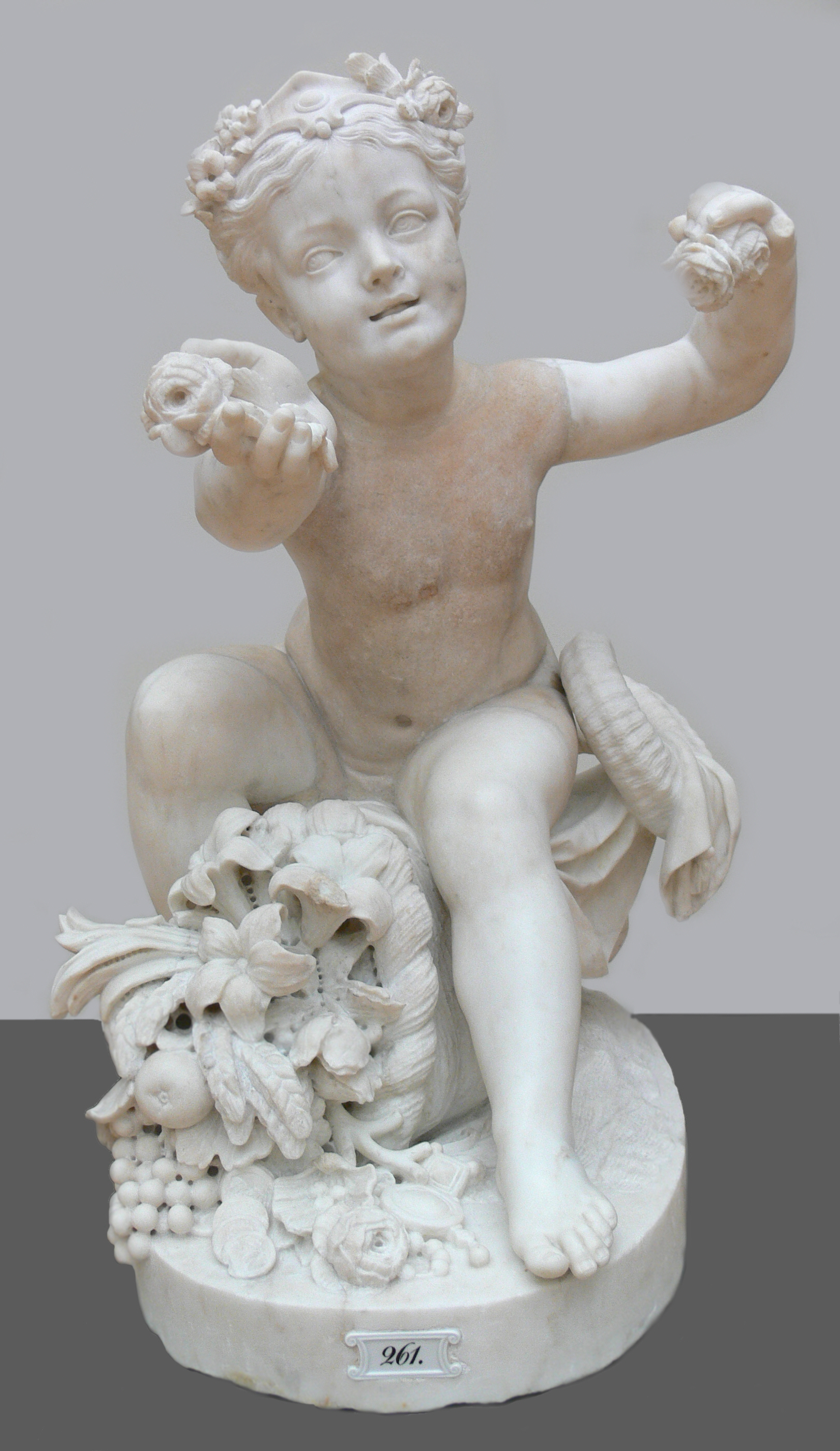 Rome 1731 (torso: Roman, from the collection of Cardinal Melchior de Polignac)